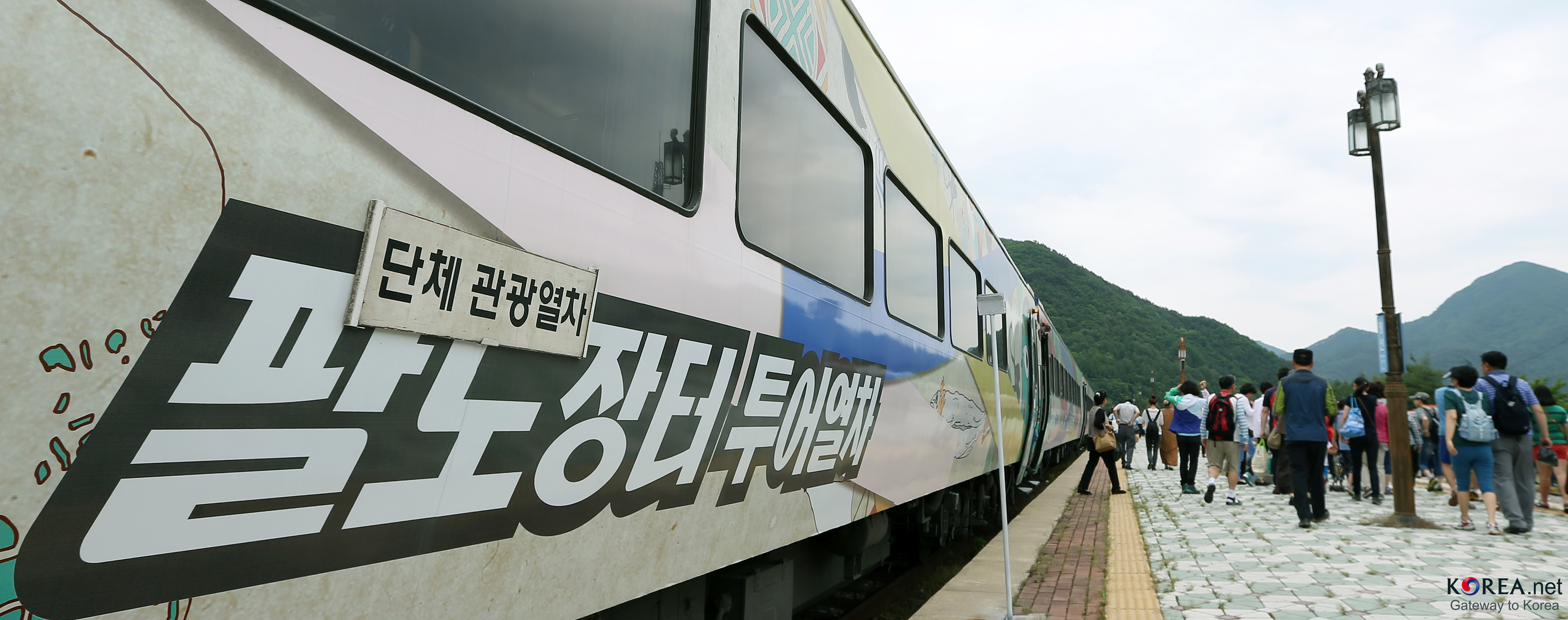 Jeongseon Traditional Market June 7, 2014 Jeongseon Station, Jeongseon-gun, Gangwon-do Ministry of Culture, Sports and Tourism Korean Culture and Information Service ( Official Photographer: Jeon Han 팔도장터 관광열차 – 강원도 정선 아리랑시장 2014-06-07 정선역 문화체육관광부 해외문화홍보원 코리아넷 전한